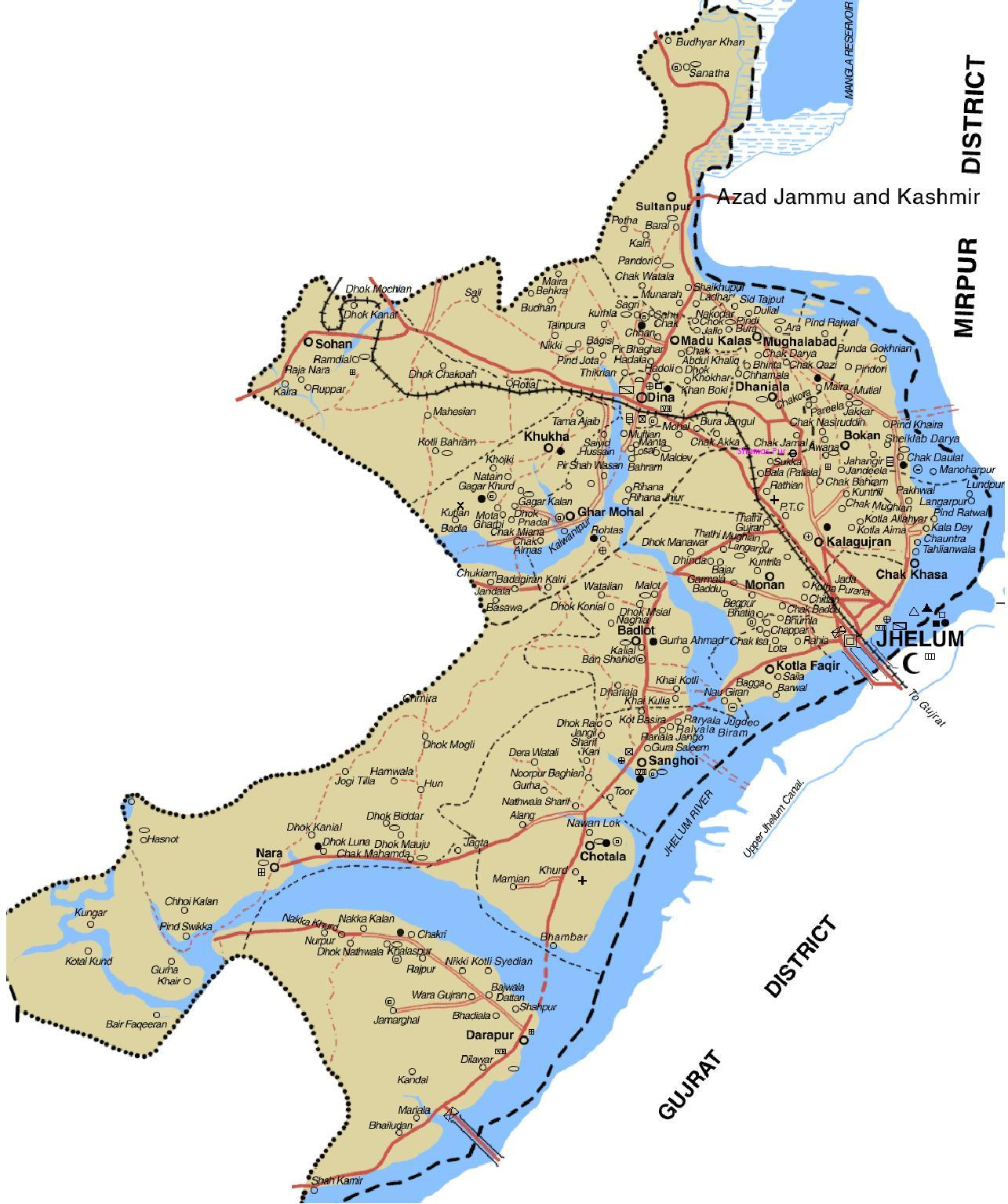 Jhelum City & District (city proper and suburbia)